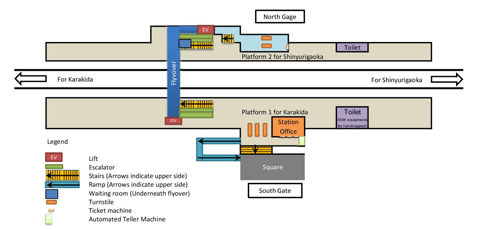 Haruhino satation map in English